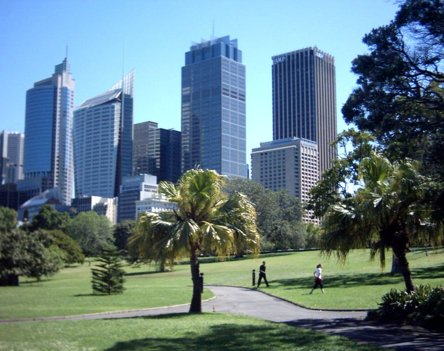 Skyline of Sydney as seen from the Royal Botanical Gardens